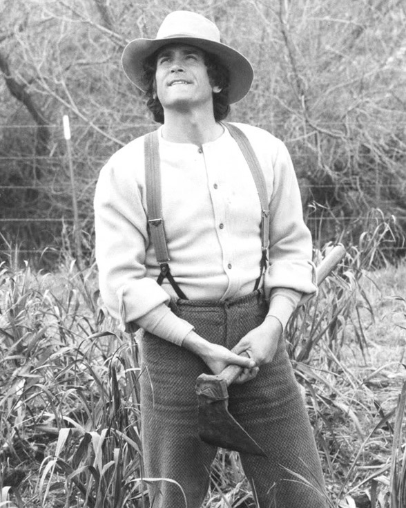 Publicity photograph of Michael Landon as Pa Ingalls of the television series Little House on the Prairie.